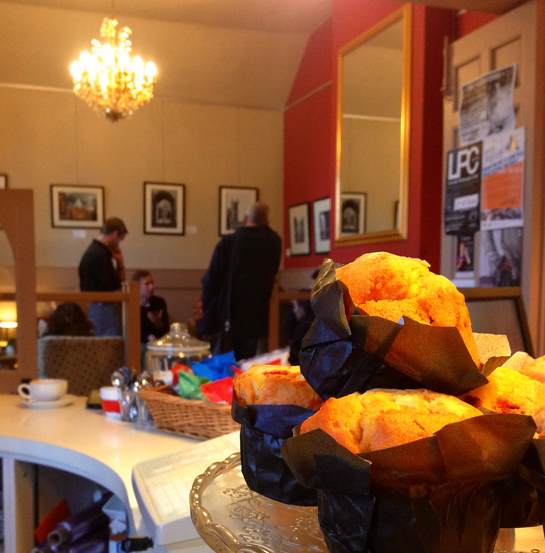 Lincoln Philosophy Café 3rd Anniversary Meeting taken on Monday 4th June 2012